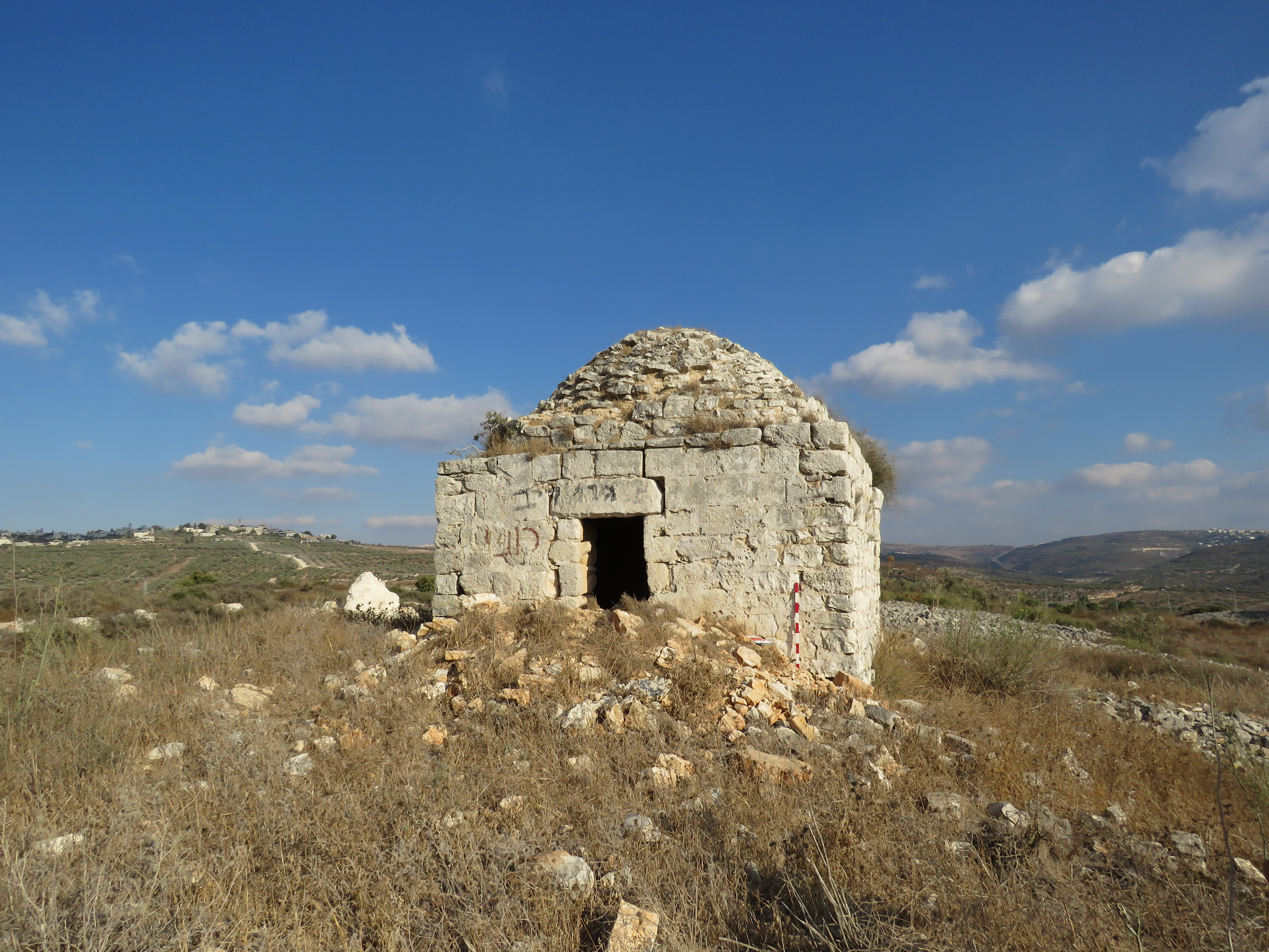 Maqam Imam Ali near Kdumim